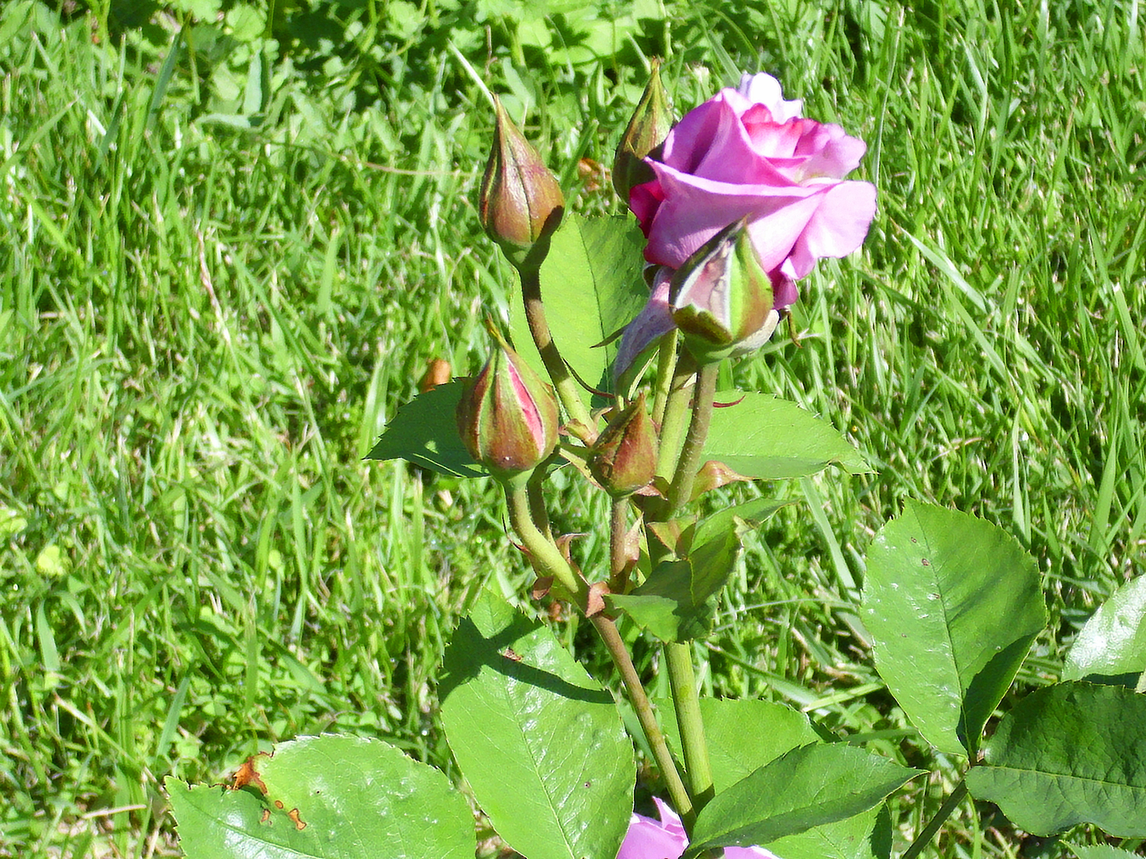 Rosa 'Dioressence' Delbard-Chabert 1984, in the "Rosaleda del Parque del Oeste" in Madrid. Identified by sign.